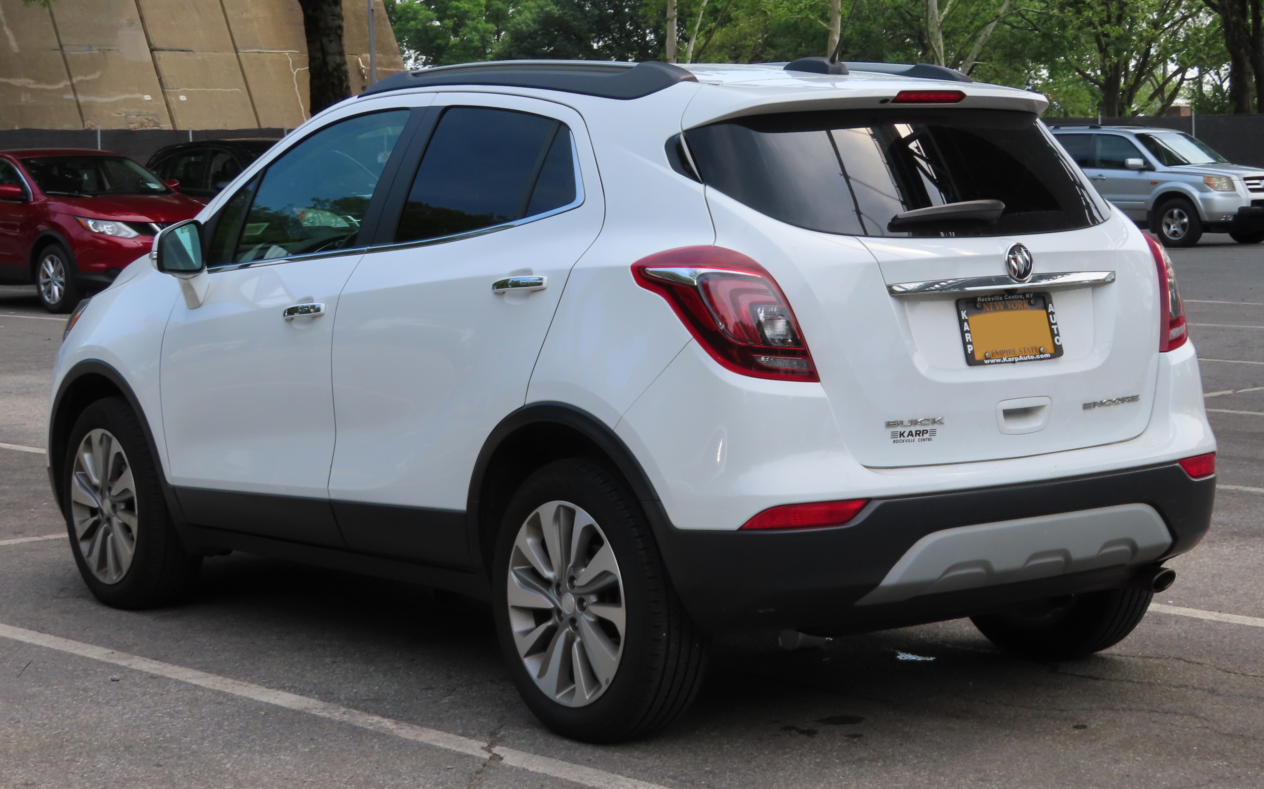 A 2017 Buick Encore photographed at Astoria Park, in Astoria, Queens, New York, USA